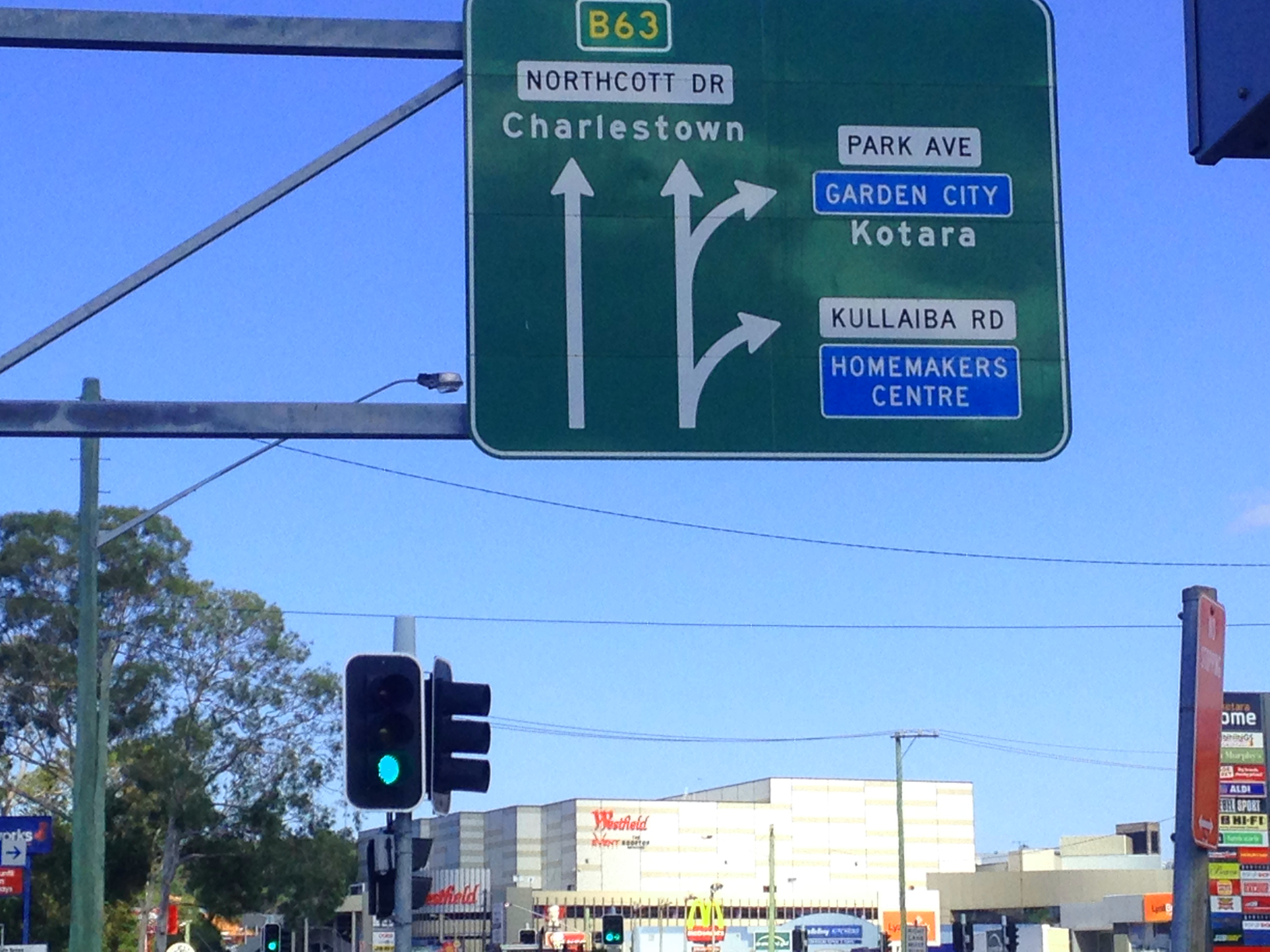 An outdated sign on Northcott Drive reflecting Westfield Kotara's former name. This sign would have been erected before the 2003 renaming. Photo taken April 2017